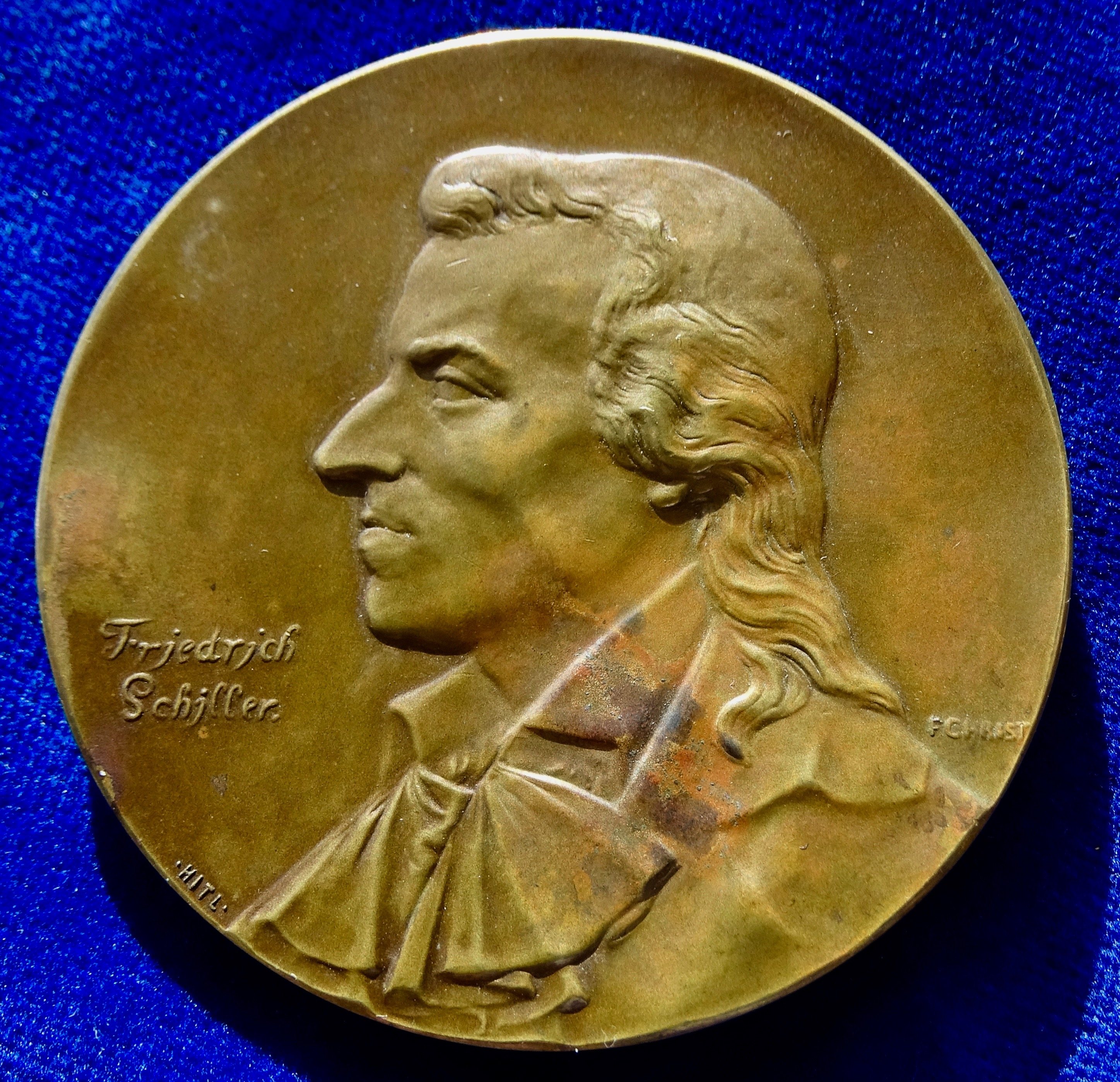 Art Nouveau. 100th Death Anniversary Medal of Poet & Physician Schiller ND 1905. Bonze medallion d. = 60 mm. Schiller, Friedrich von, 1759 Marbach - 1805 Weimar, Thuringia, Germany. 2 lines l. of his portrait l.: "Friedrich Schiller."/ Radiant muse holding a lyre, and sitting on a flying eagle. Down at l. on a rock a crowned snake as a symbol for Schiller's medical profession. Down at r. reclined a nude Apollo, the god of poetry. Wurzbach -; Brettauer -. Artist: F. (Fritz) Christ, 1866 Bamberg - 1906 München. Condition: Nice VERY FINE+.